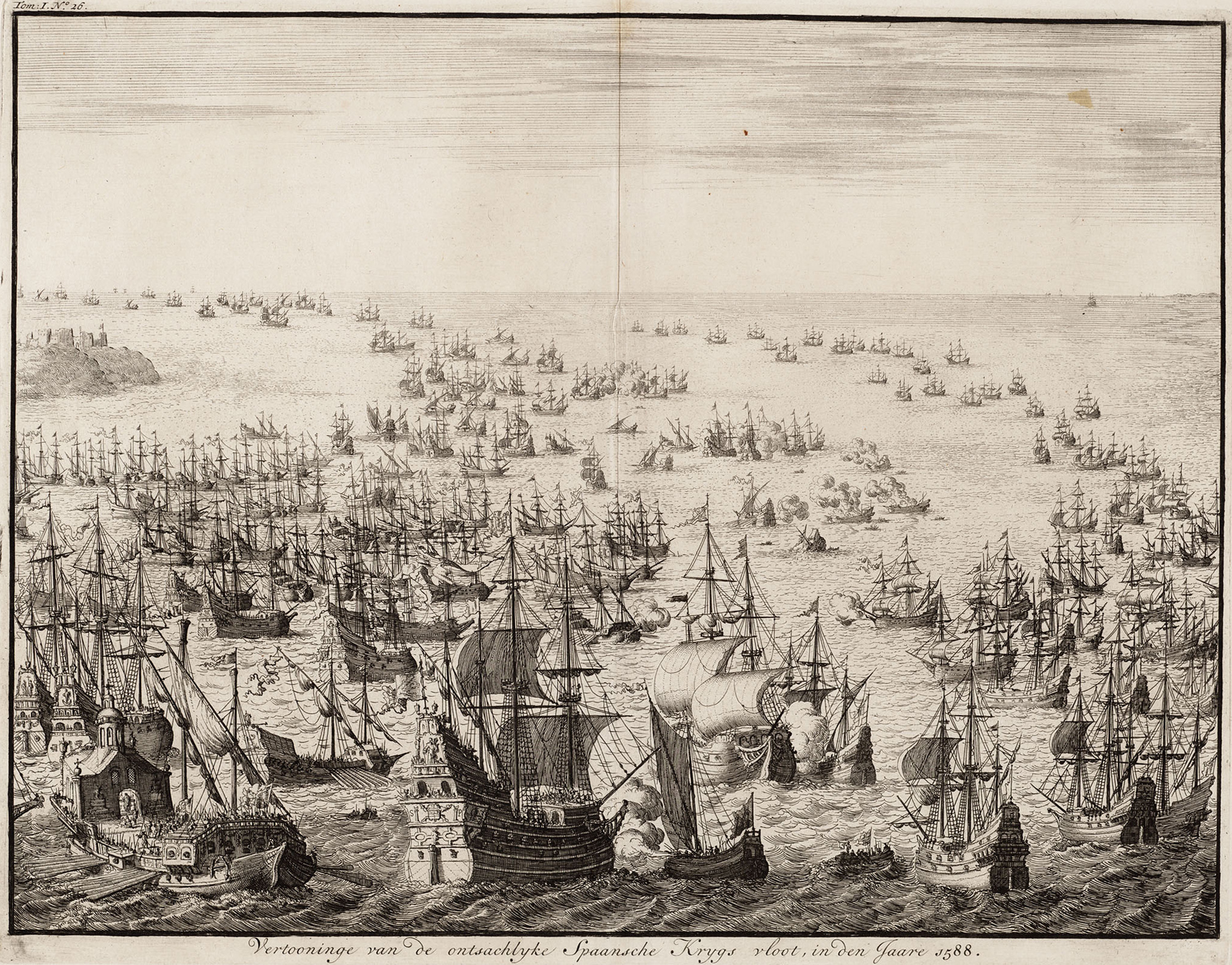 The mighty display of the Spanish armada in 1588.